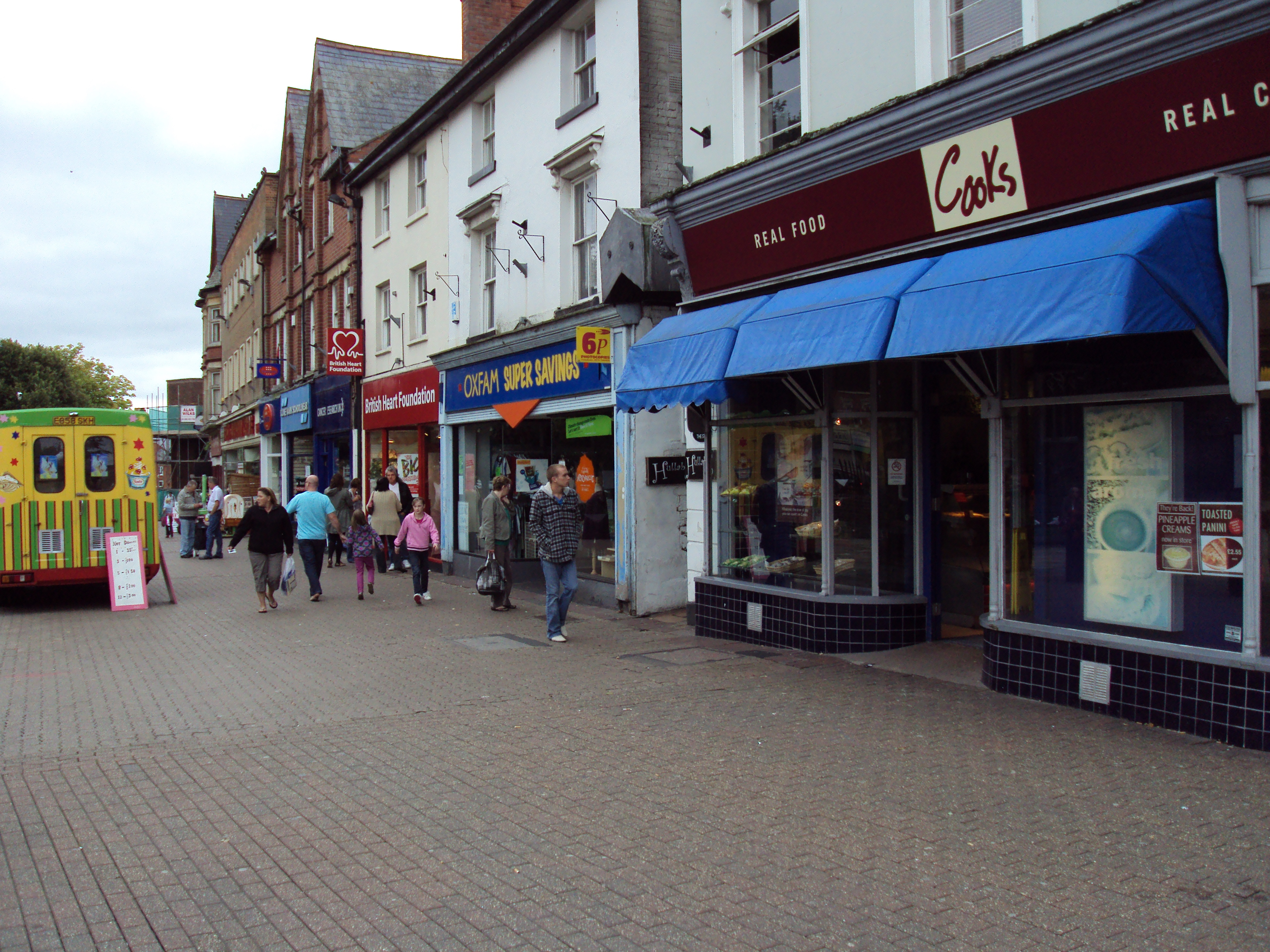 Market Place on a Saturday afternoon, Redditch town centre, Worcestershire, England.